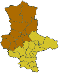 Map of Saxony-Anhalt highlighting the Magdeburg region